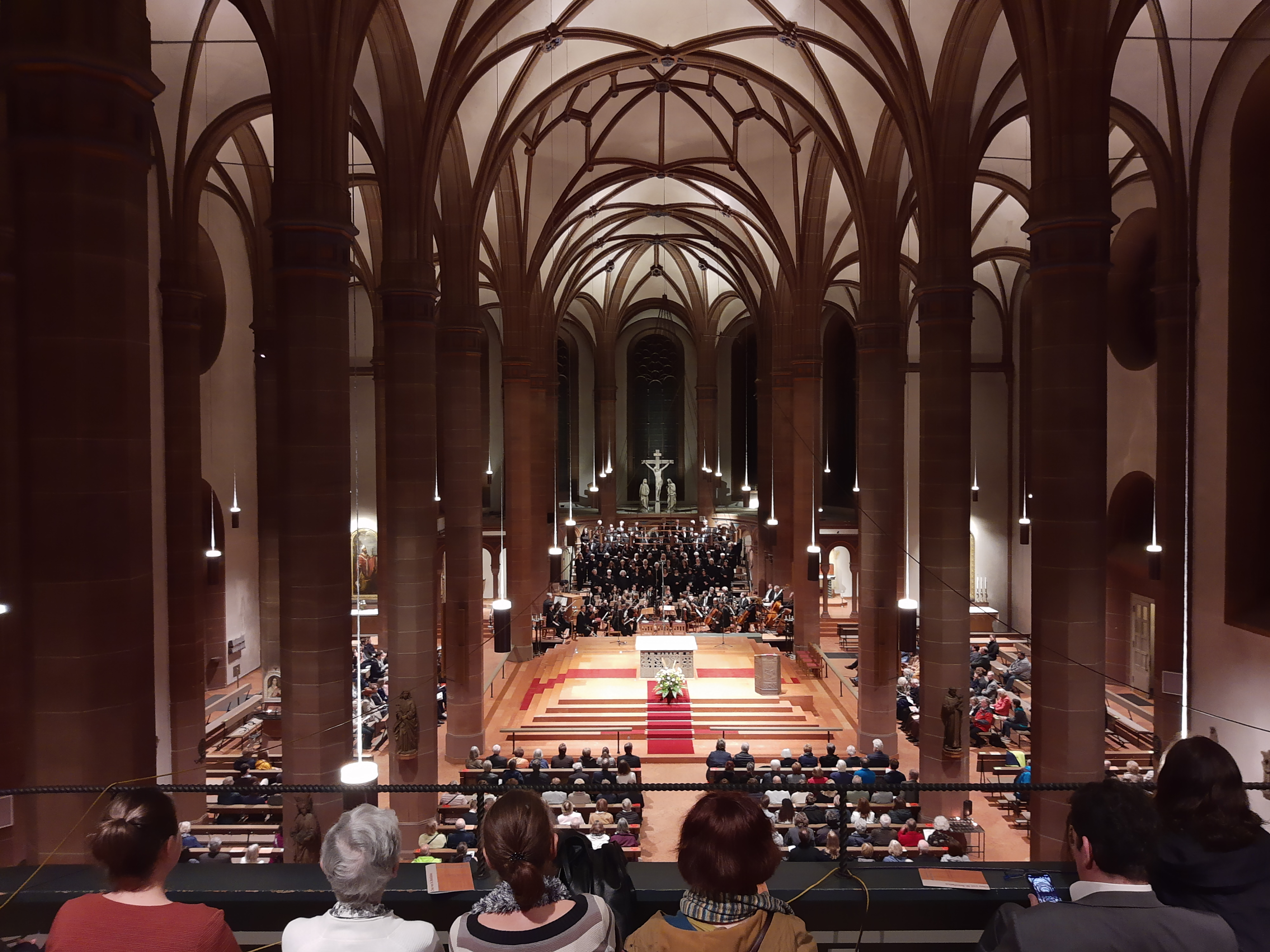 Stabat Mater (Dvořák), choral concert at St. Bonifatius Wiesbaden, Chor von St. Bonifatius, members of the Hessisches Staatsorchester, Roman Twardy conducting